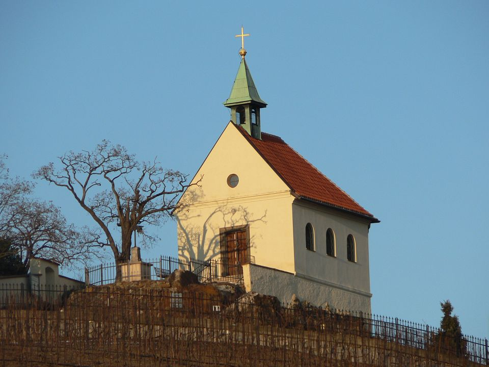 Chapel St. Klara, Troja, Prague, Czech Republic